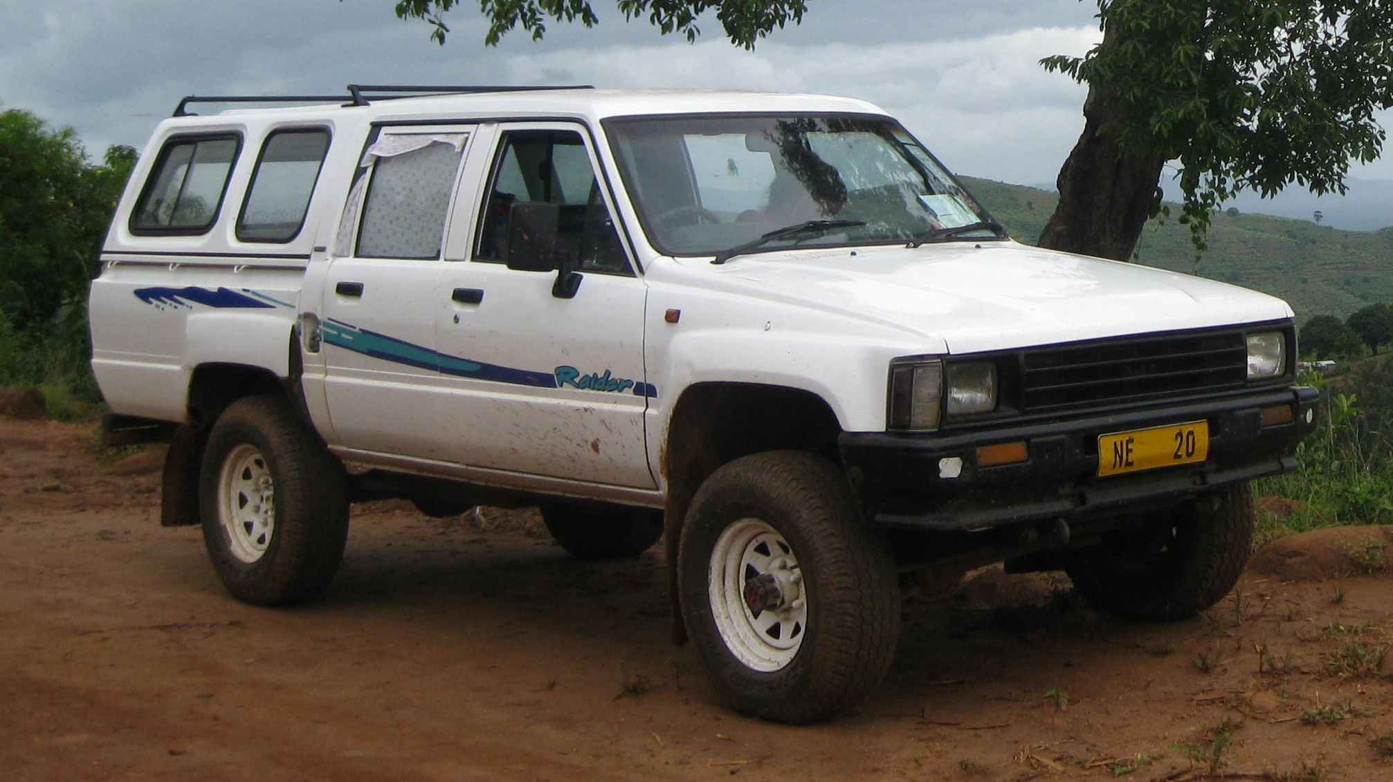 South African market Toyota Hilux Double Cab of the fourth generation (1994). Crop of File:Hilux ThyoloRoad.JPG by Papphase.